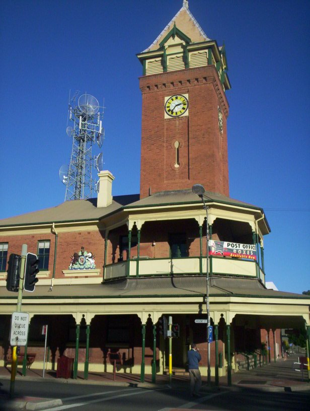 Broken Hill, New South Wales. I took the photo.